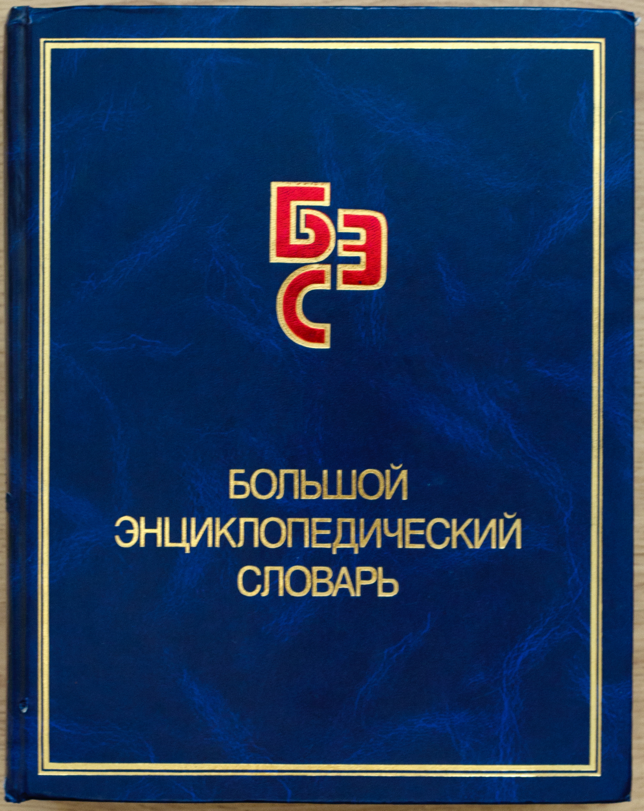 Big encyclopedia dictionary